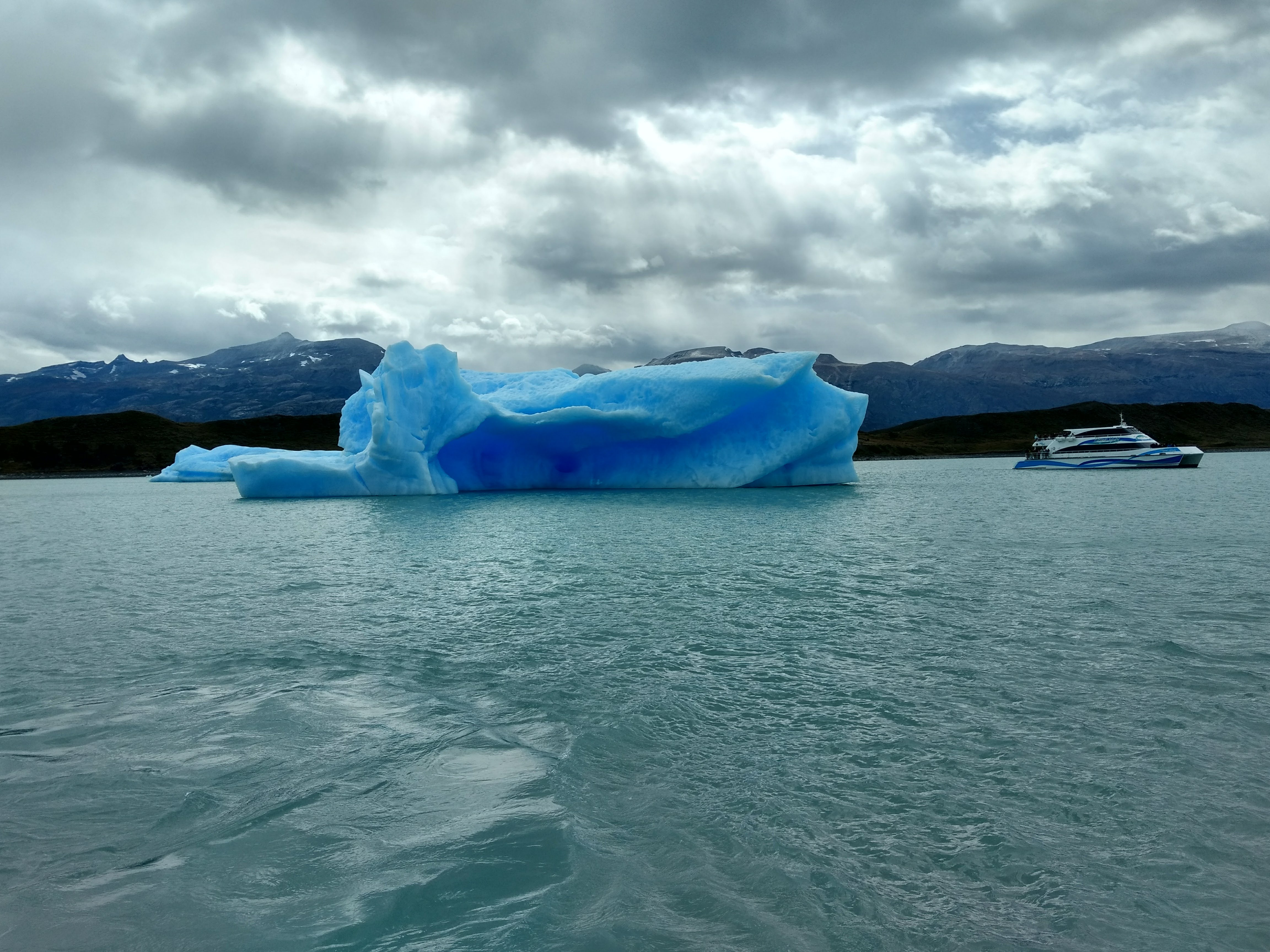 Iceberg and boat in Argentino Lake